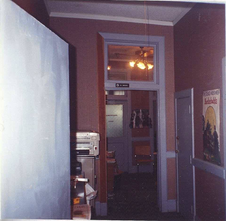 Beacham Theatre upstairs offices in March 1991. Posters for the Dead Milkmen's Beelzebubba album and the Beatles are visible.